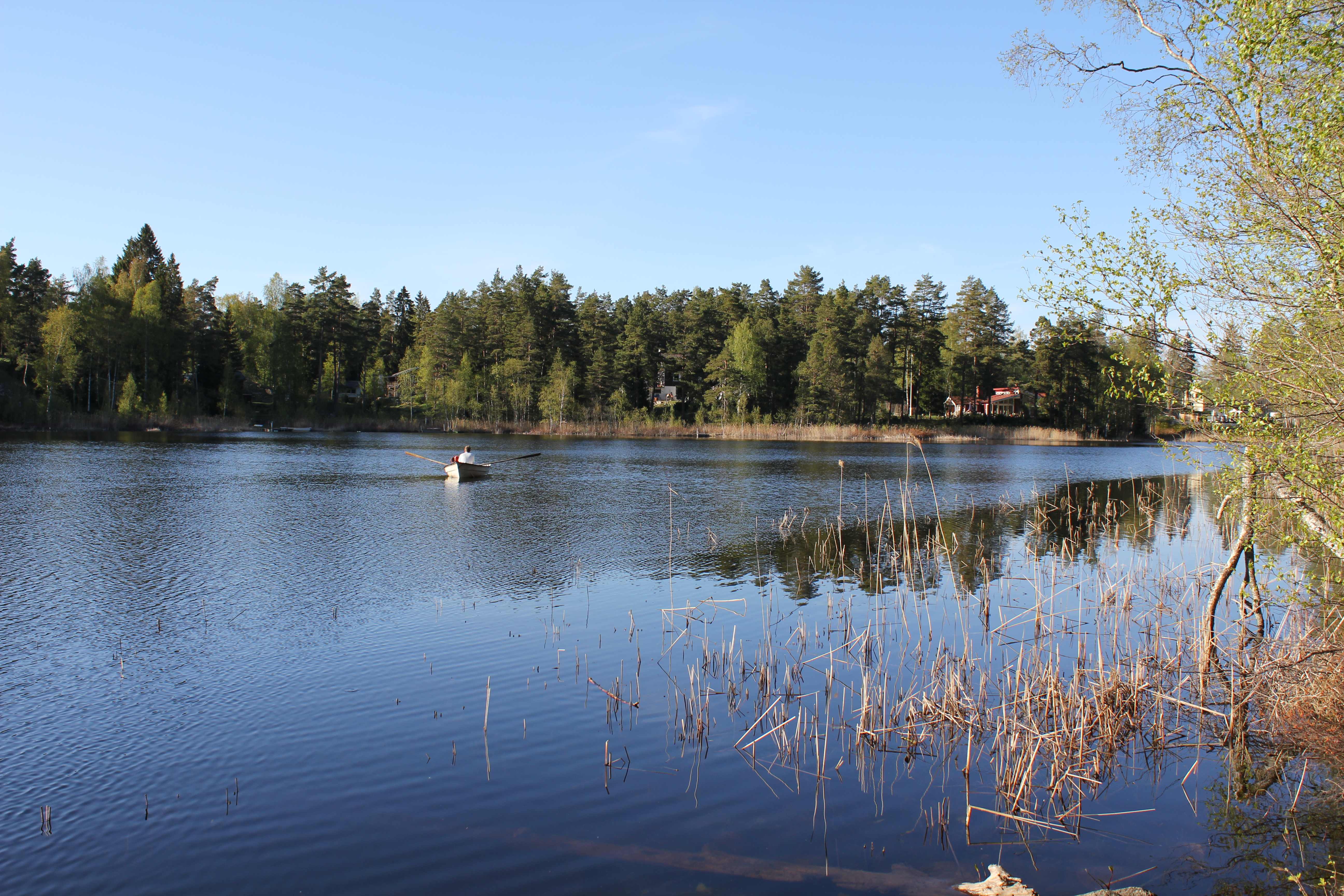 Övrasjön lake in Botkyrka municipality south of Stockholm, Sweden.